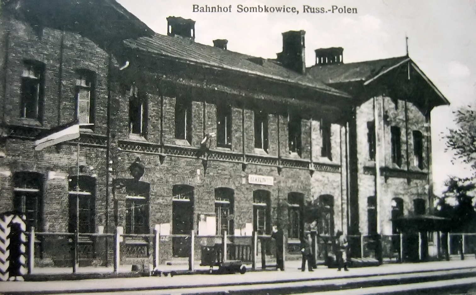 Zombkowice, Bahnhof Dąbrowa Górnicza Ząbkowice, Poland